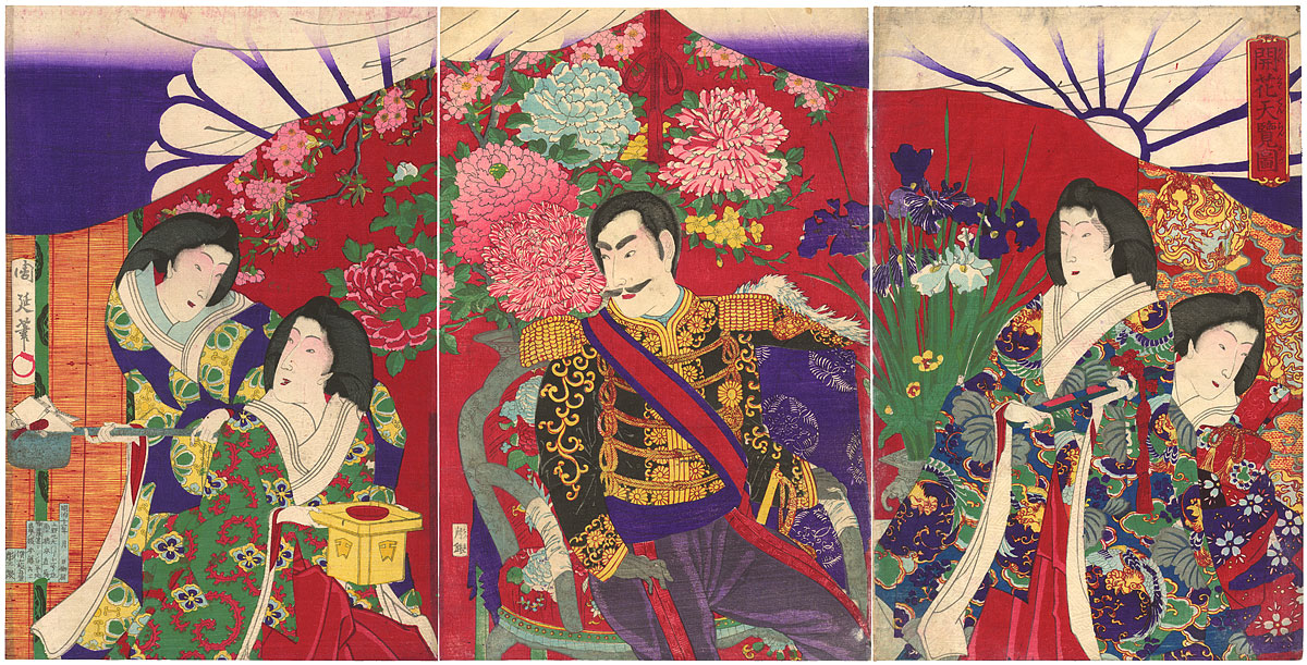 Imperial inspection of the flower display The Emperor, Empress and court ladies viewing flower arrangements 開花天覧図 周延 明治11年